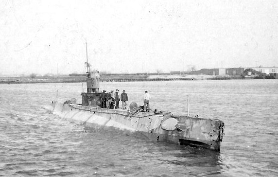 NH-51150 USS L-2 off the Philadelphia Navy Yard, 1919 (cropped)